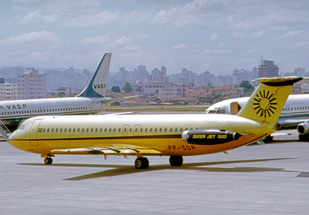 BAC 1-11 Series 520 PP-SDR of TransBrasil at Sao Paulo Congonhas in 1975